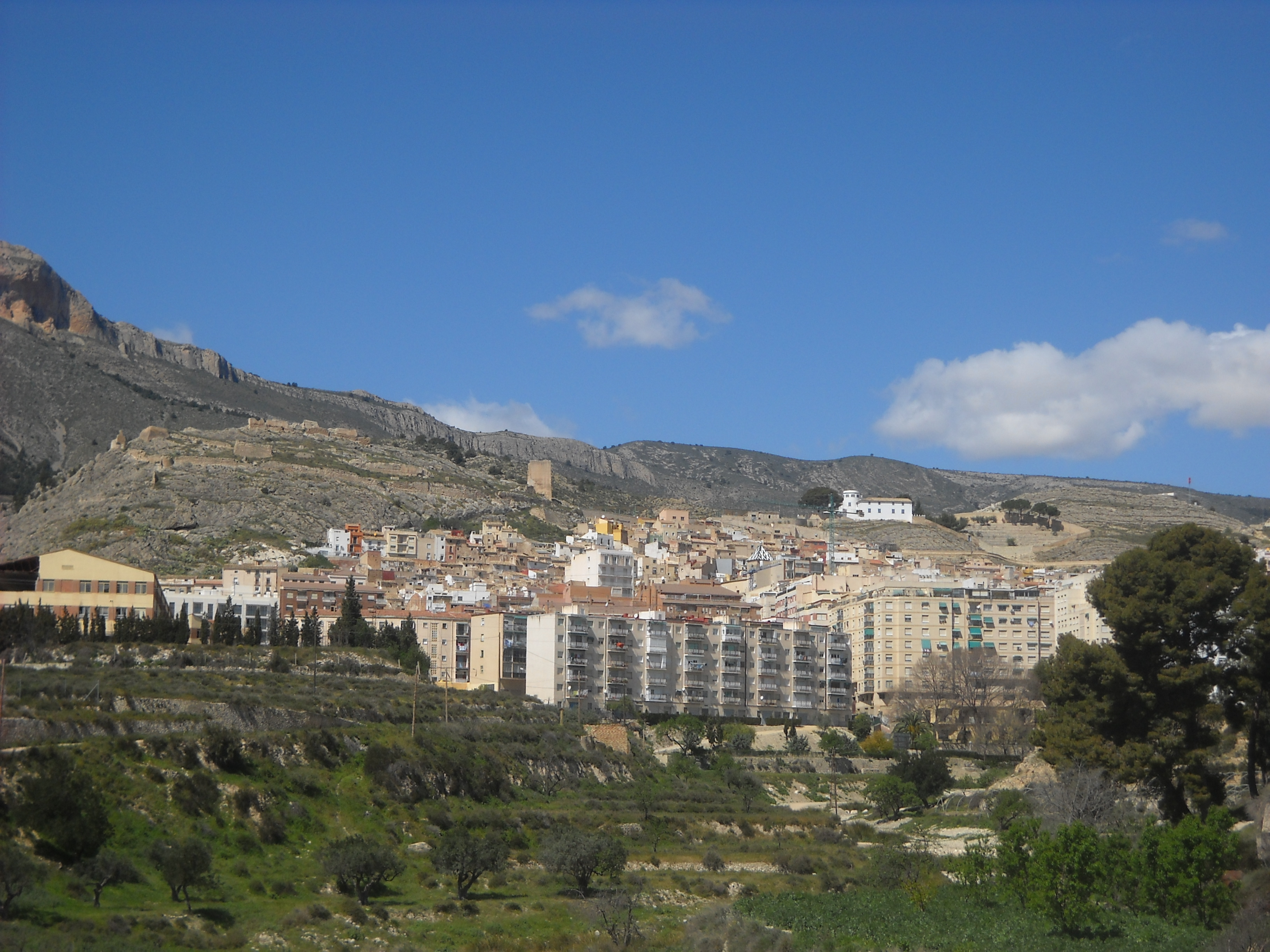 Phot of Xixona, the nougat's village of the Valencian Community, in Spain.